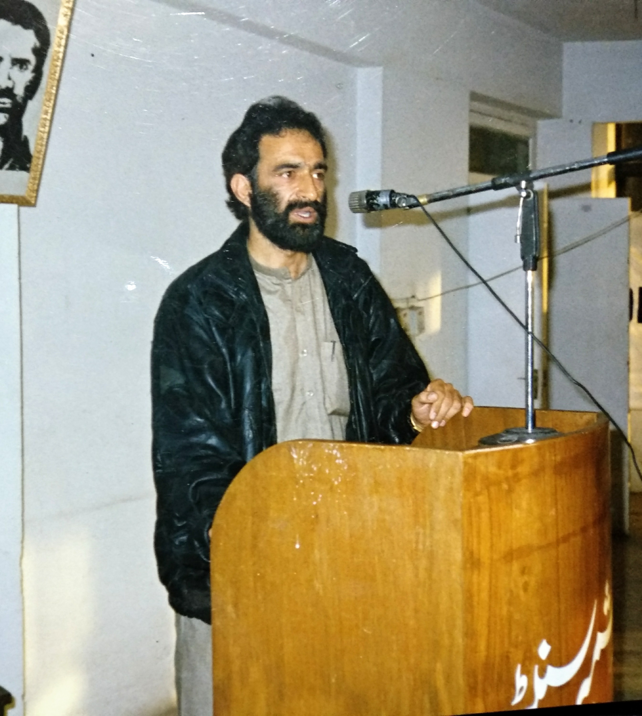 These are some pictures of Abdul Majeed Dar